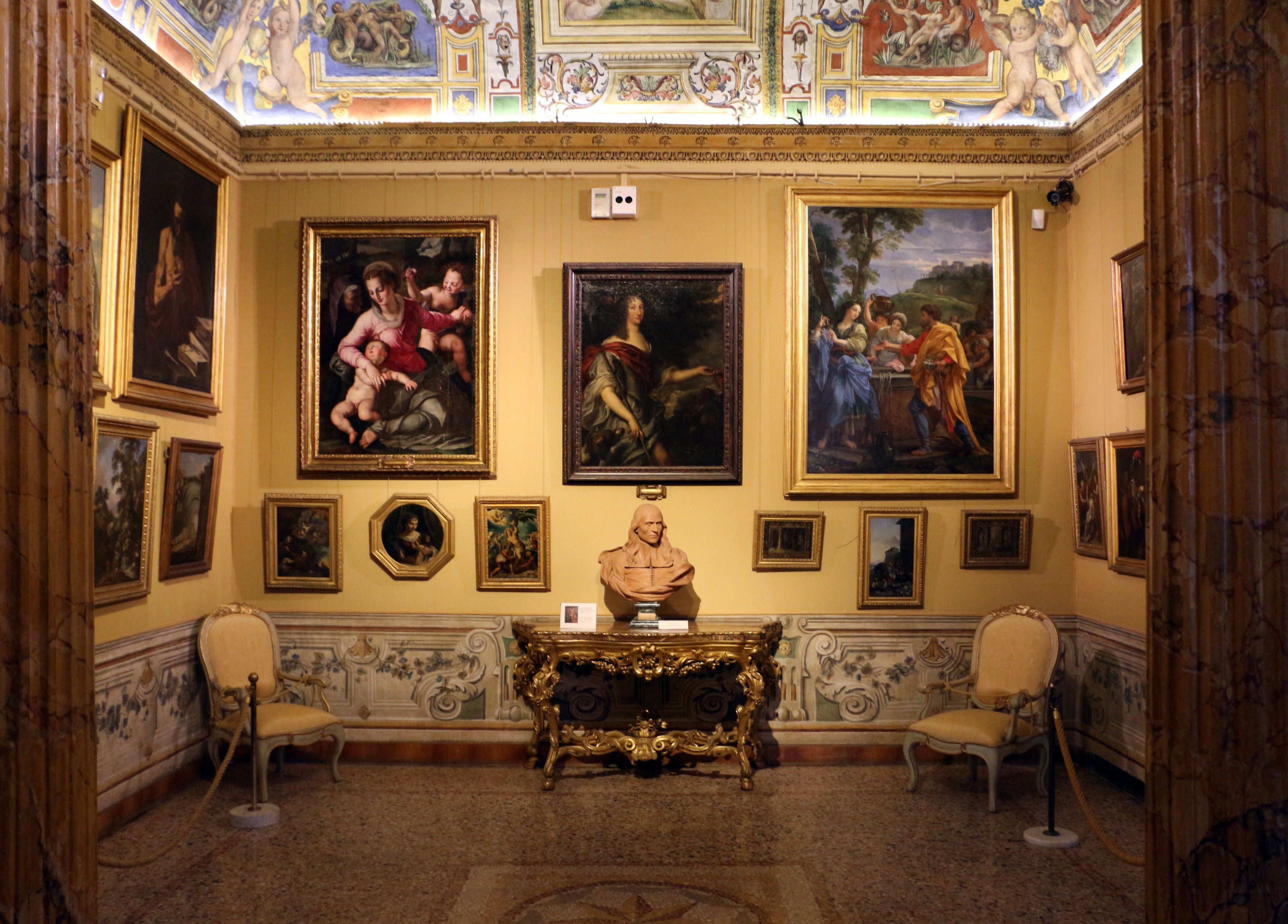 Palazzo Corsini alla Lungara (Rome)